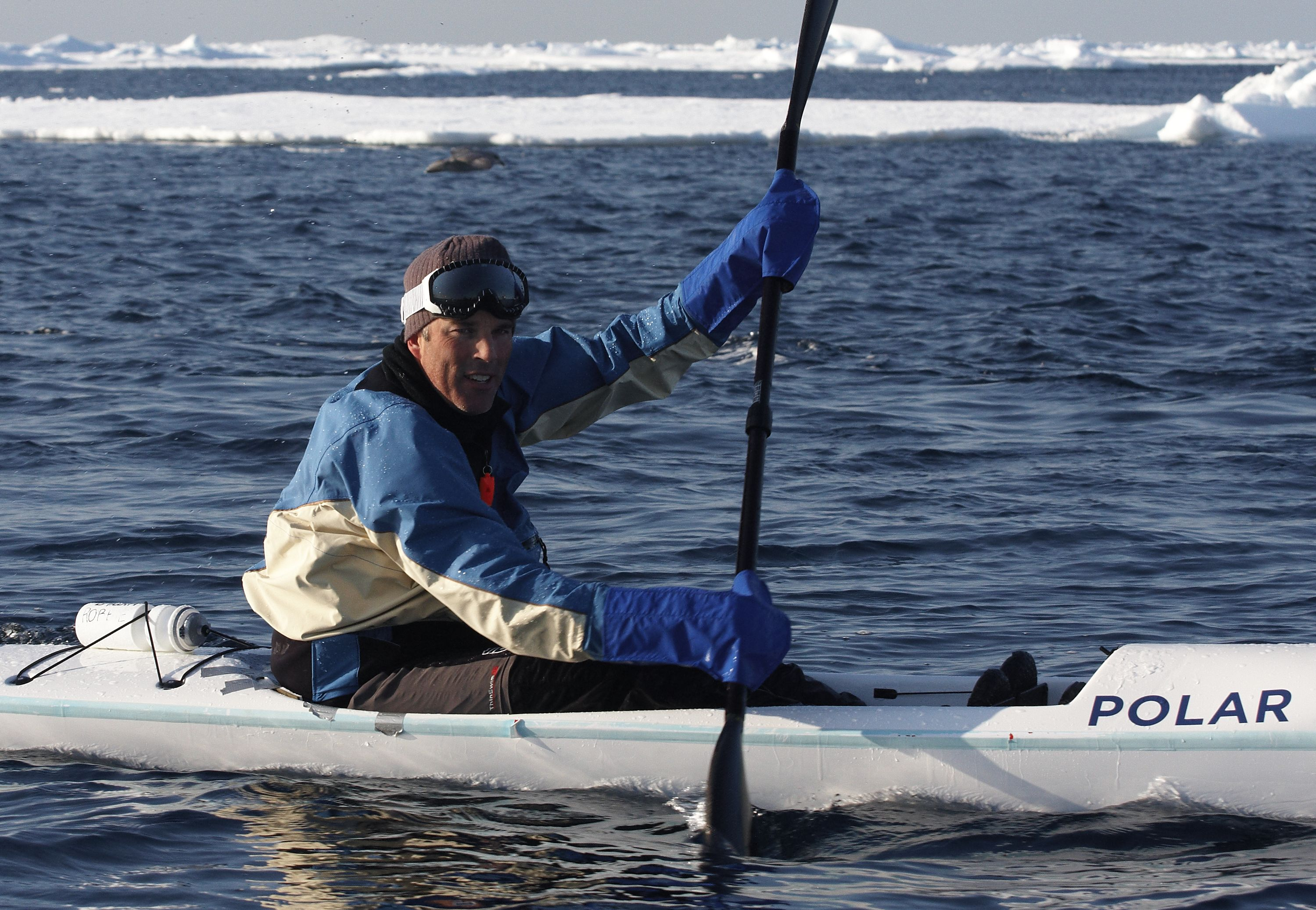 Lewis Pugh kayaks in the Arctic, Polar Defence Project